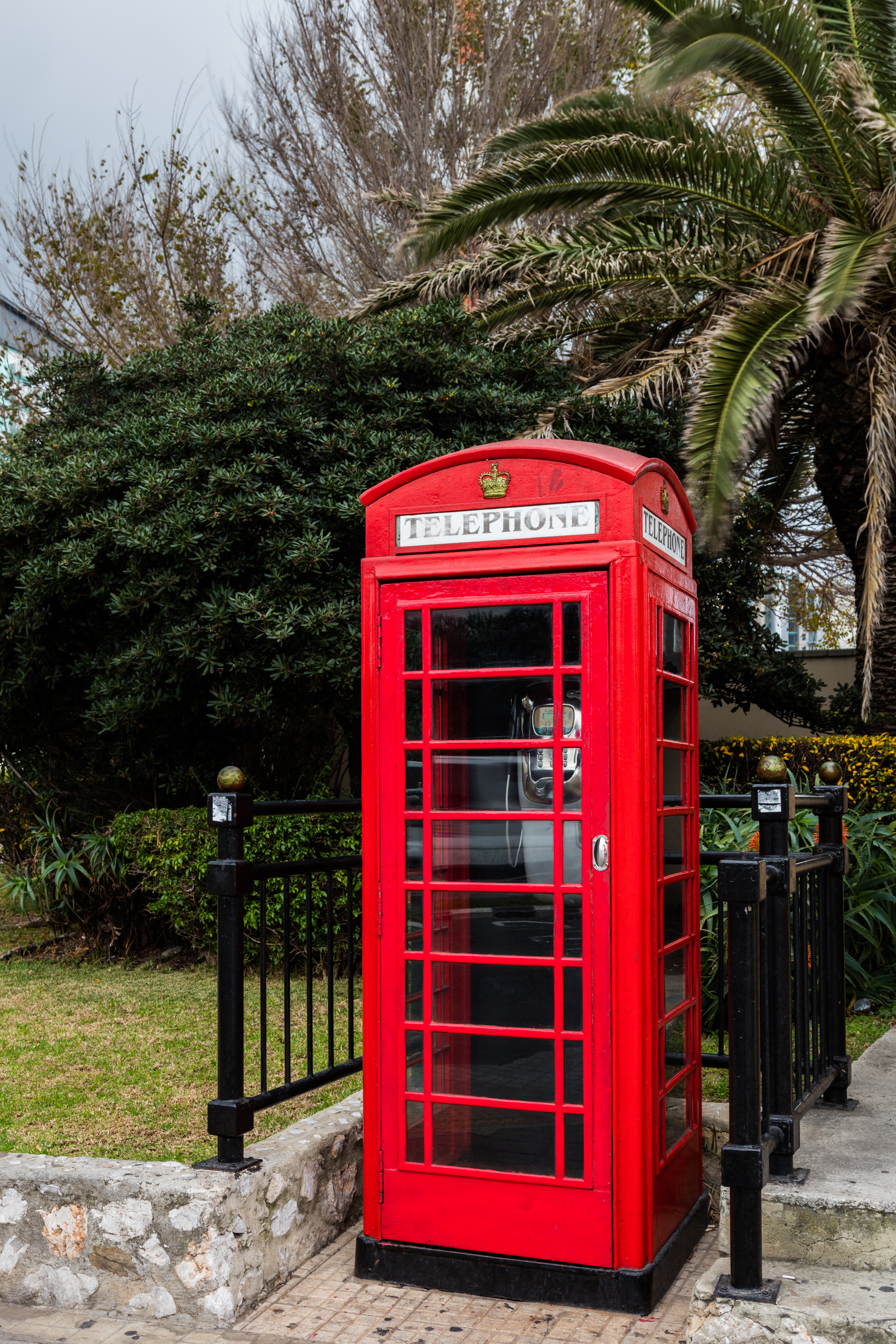 Telephone box, Gibraltar